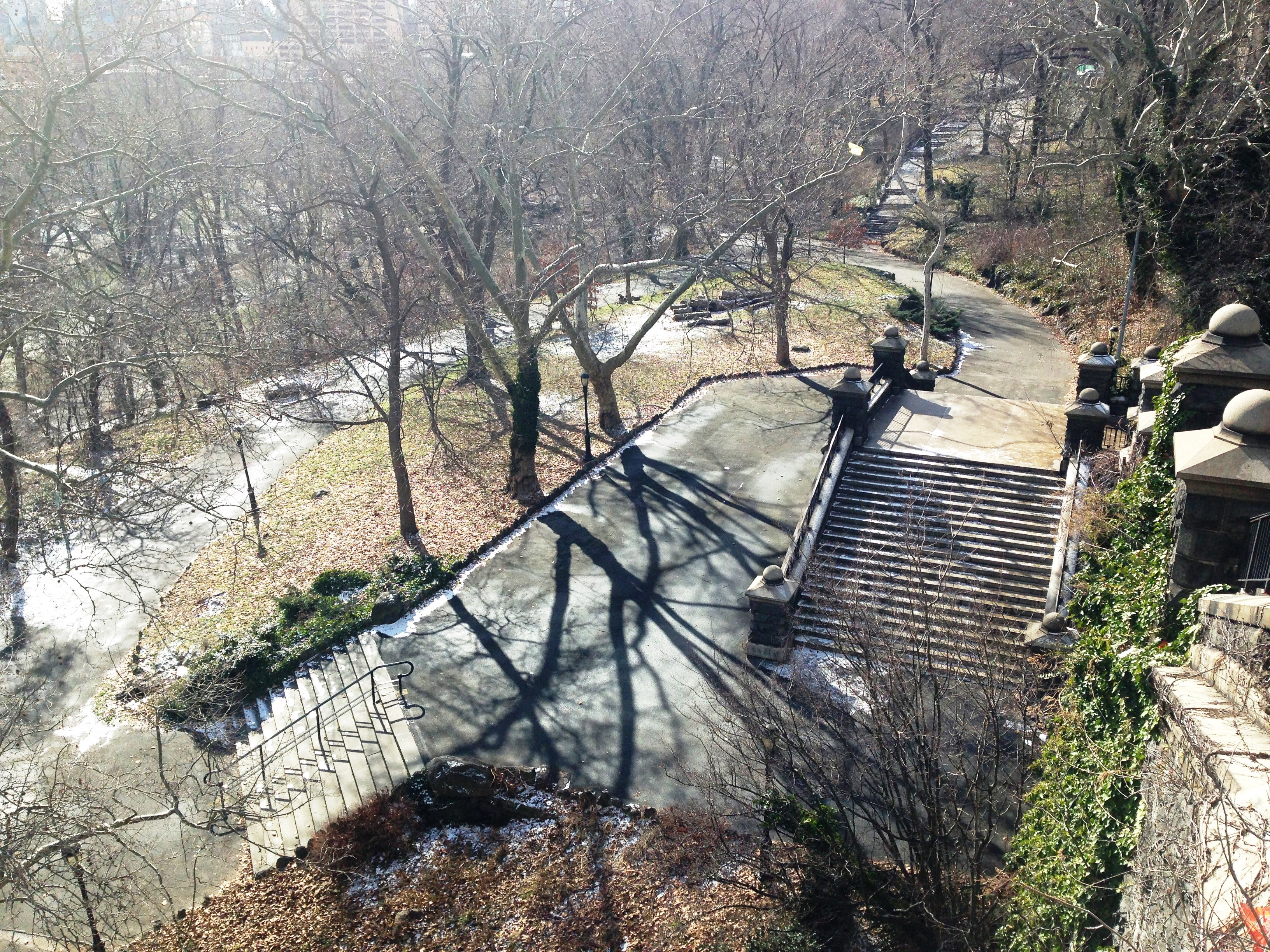 A view of Morningside Park in the Harlem neighborhood of Manhattan, New York City. This view is looking northeast from the Carl Schurz Monument on West 116th Street in the Morningside Heights neighborhood. The stairs from the park up to the monument can be seen.